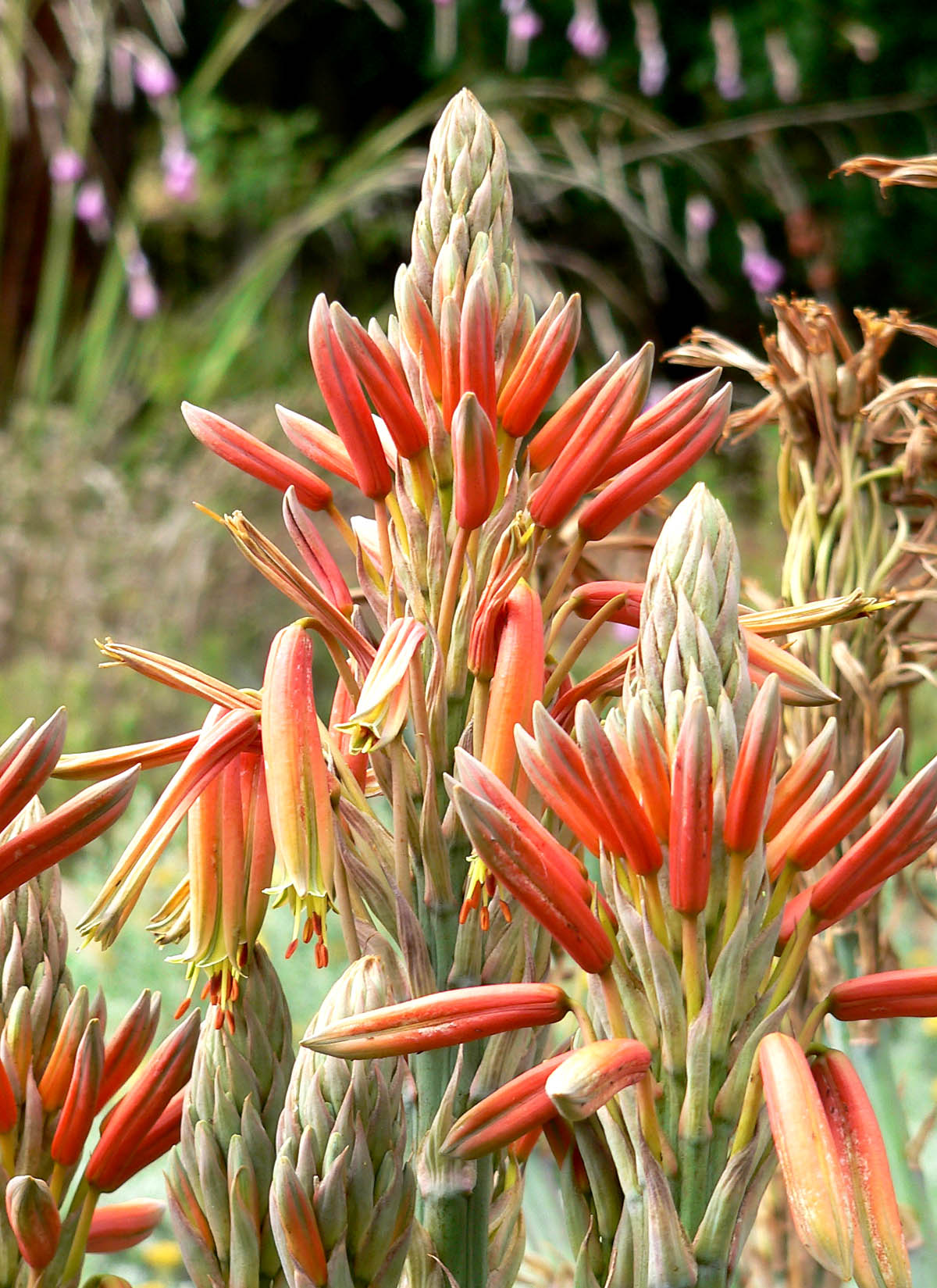 Photo of Aloe polyphylla at the University of California Botanical Garden